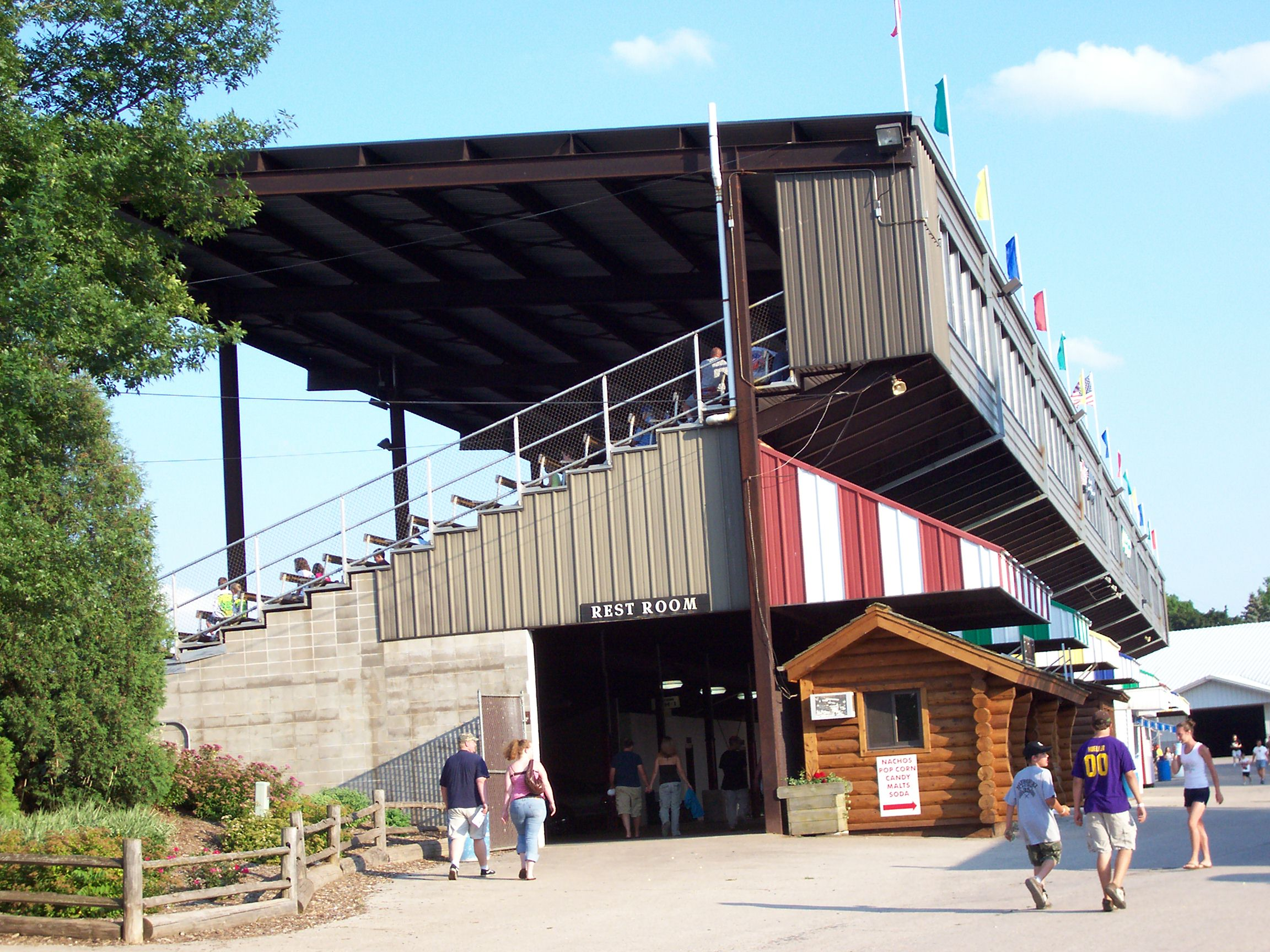 The grandstands at the Sheboygan County Fairgrounds in Plymouth, Wisconsin, USA.